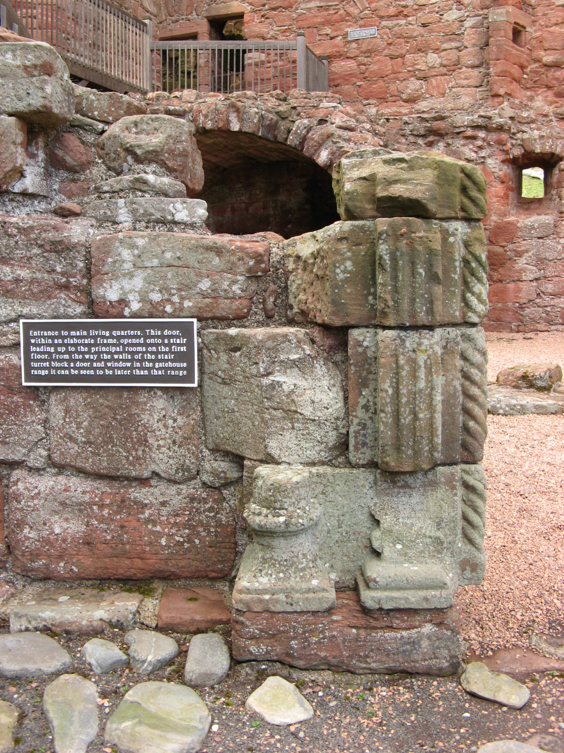 Edzell Castle, Angus, Scotland. Remains of the main door within the courtyard.